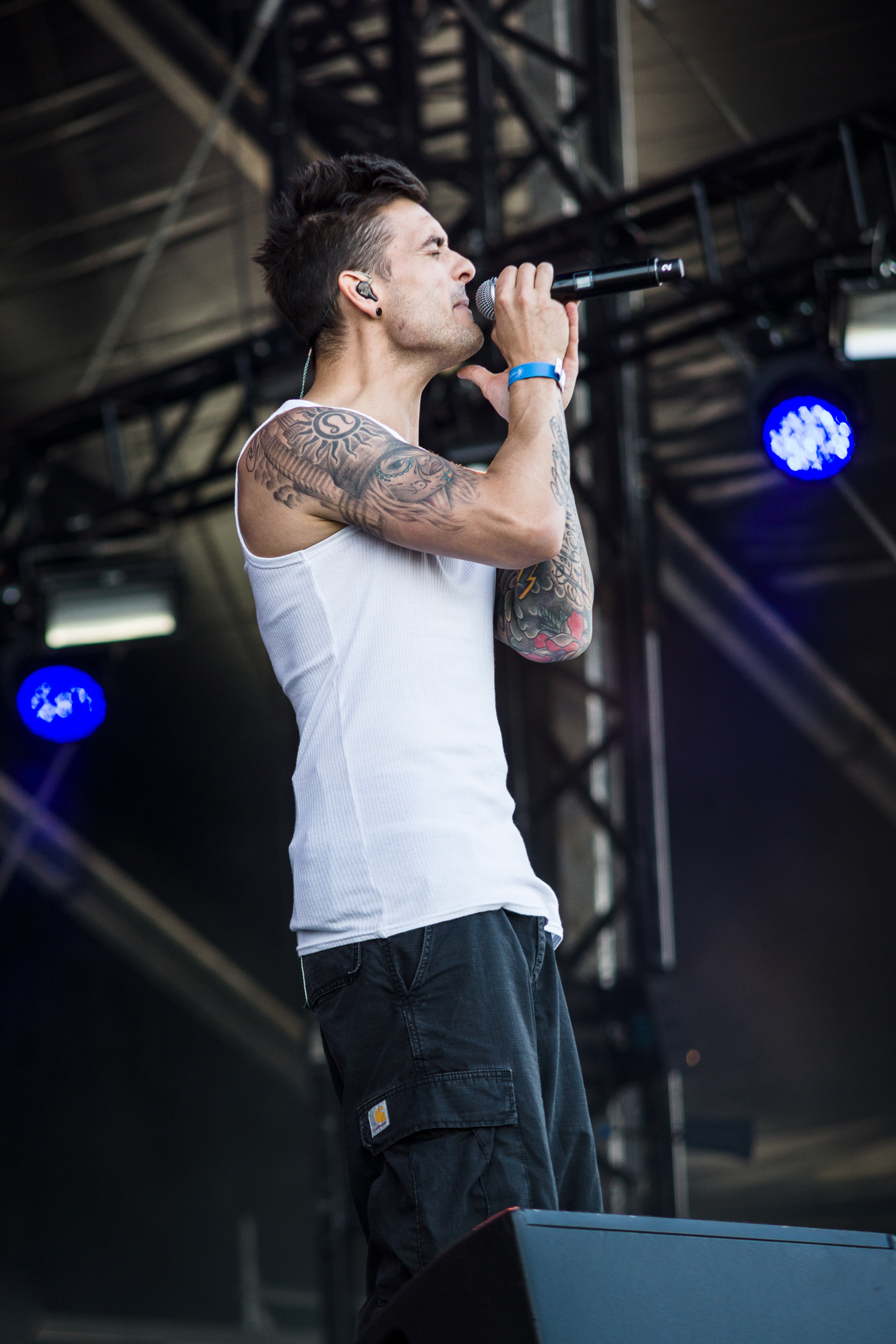 Zandro Santiago, vocalist of Dead by April band. Ursynalia 2013 Warsaw Student Festival, Poland.